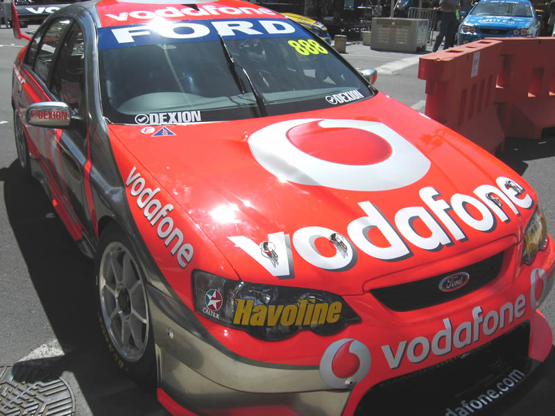 Triple Eight's 2007 Livery Razzie954, the copyright holder of this work, hereby publishes it under the following license: Attribution: Razzie954